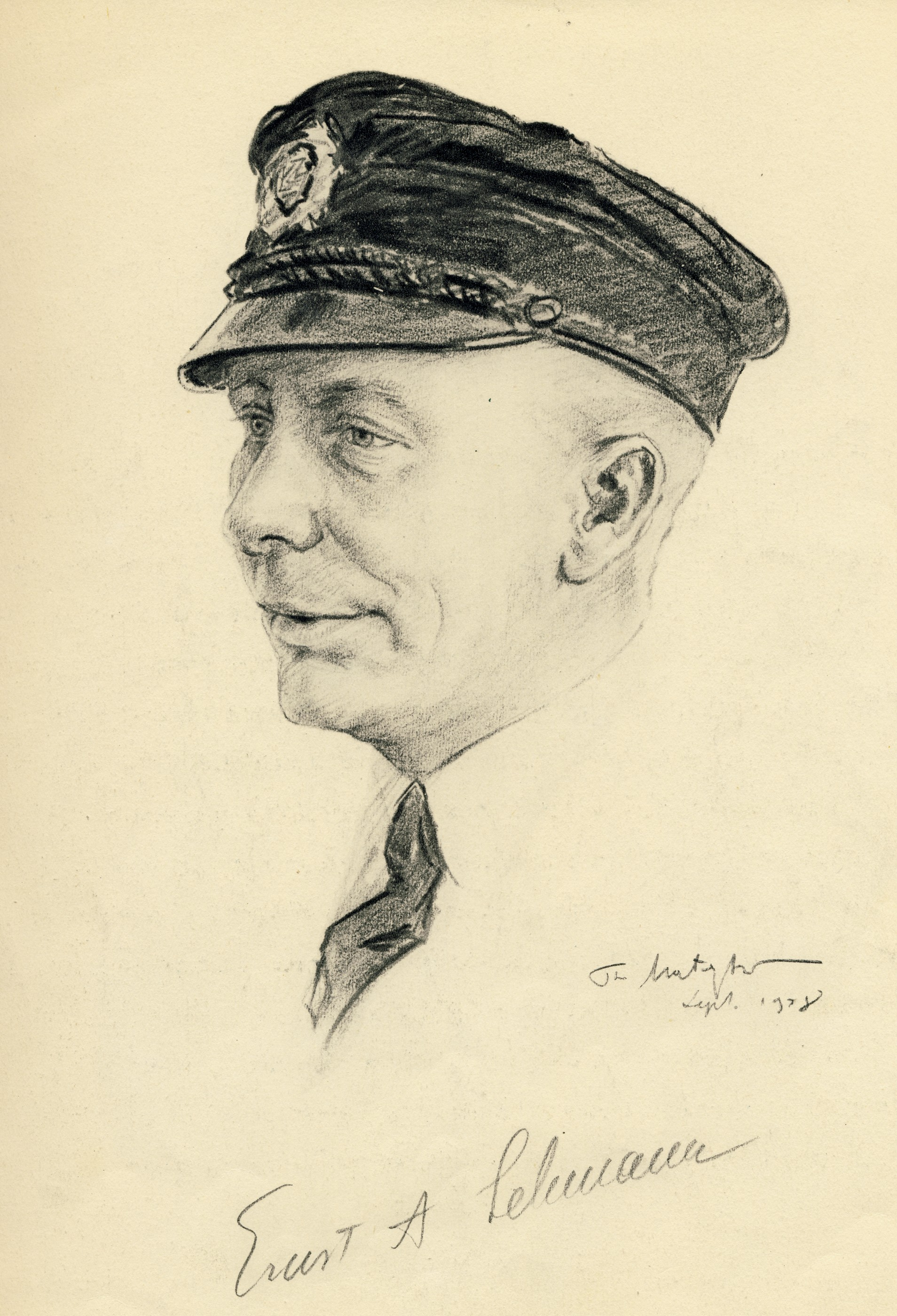 Theo Matejko: Ernst A. Lehmann